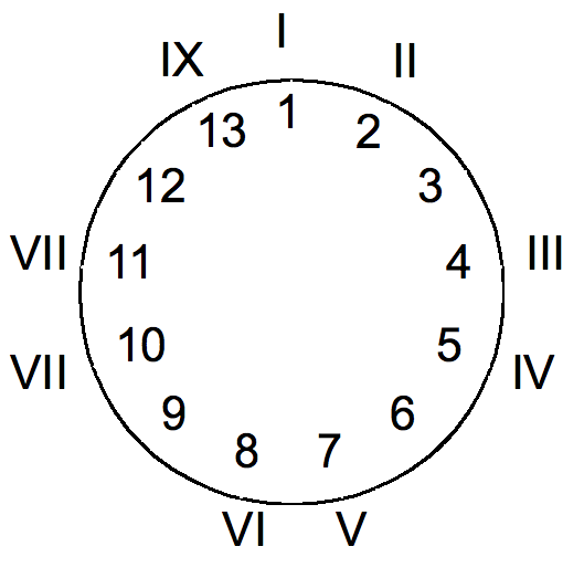 "Chromatic circle" for the Bohlen-Pierce scale (ET), with the third mode of the Lambda scale marked.